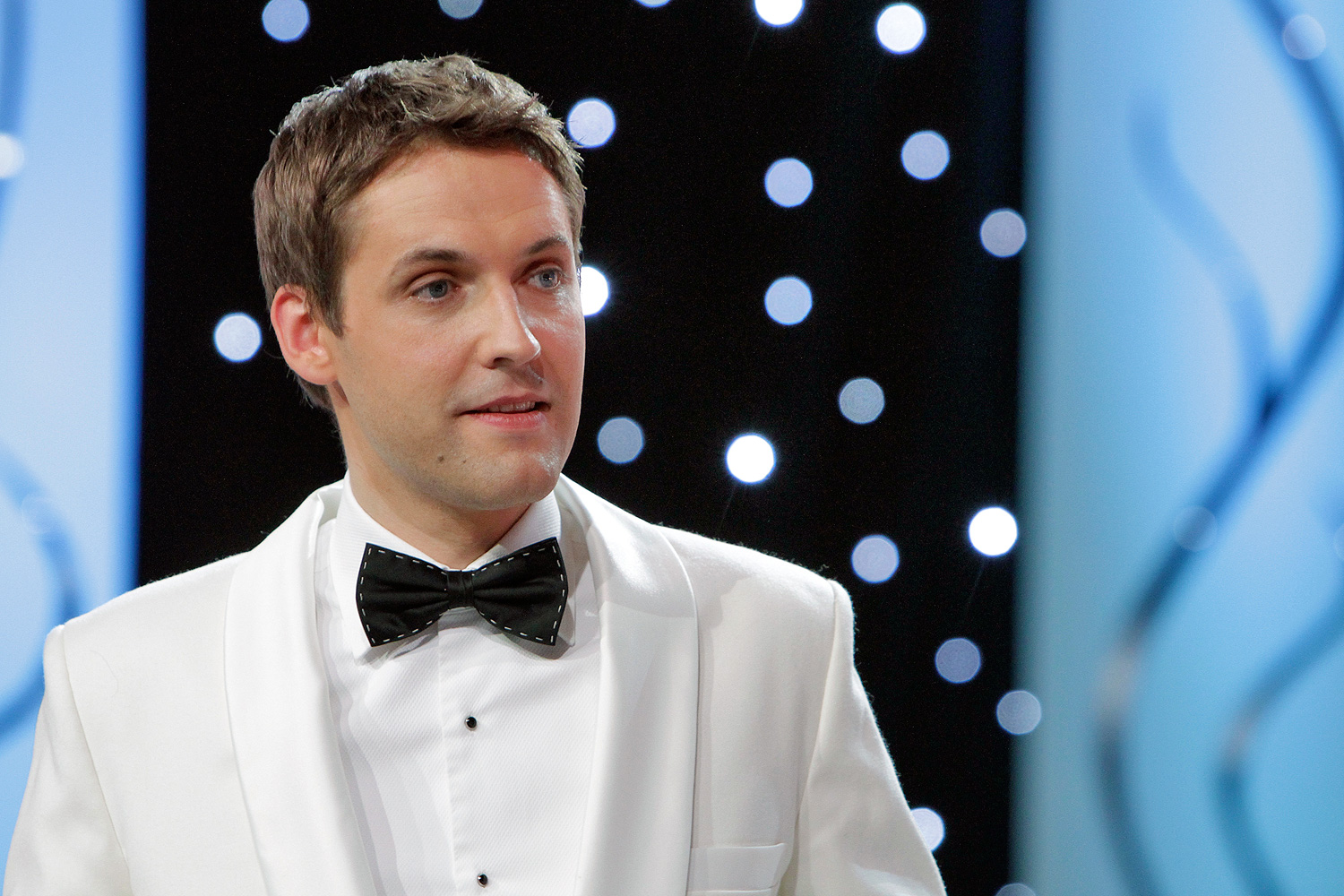 Entertainer Rolandas Vilkončius